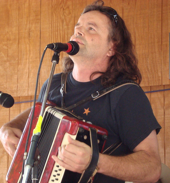 Radoslav Lorkovic performing during Mary Jo's Pancake Breakfast at the 2008 Woody Guthrie Folk Festival.